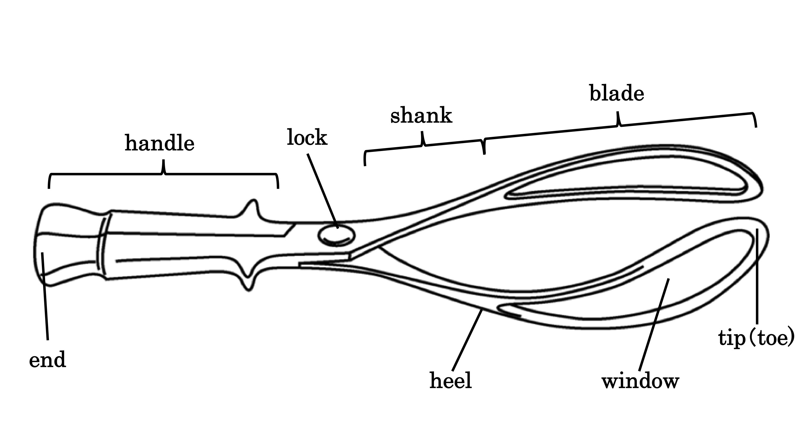 Nagele forceps